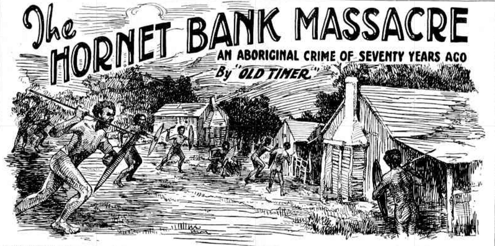 Sketch of the Hornet Bank Massacre, attack on the homestead